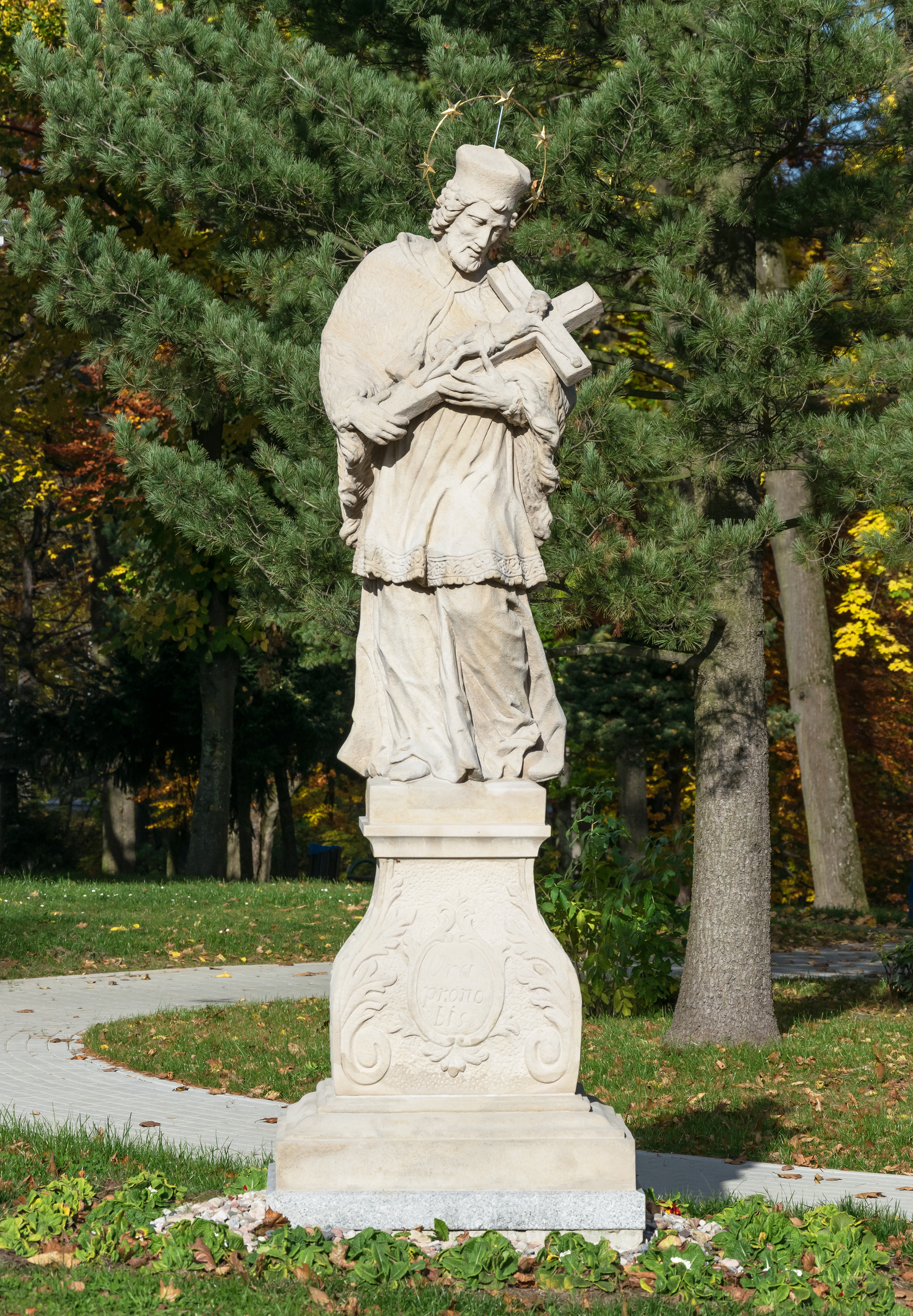 Johh of Nepomuk sculpture in Stronie Śląskie